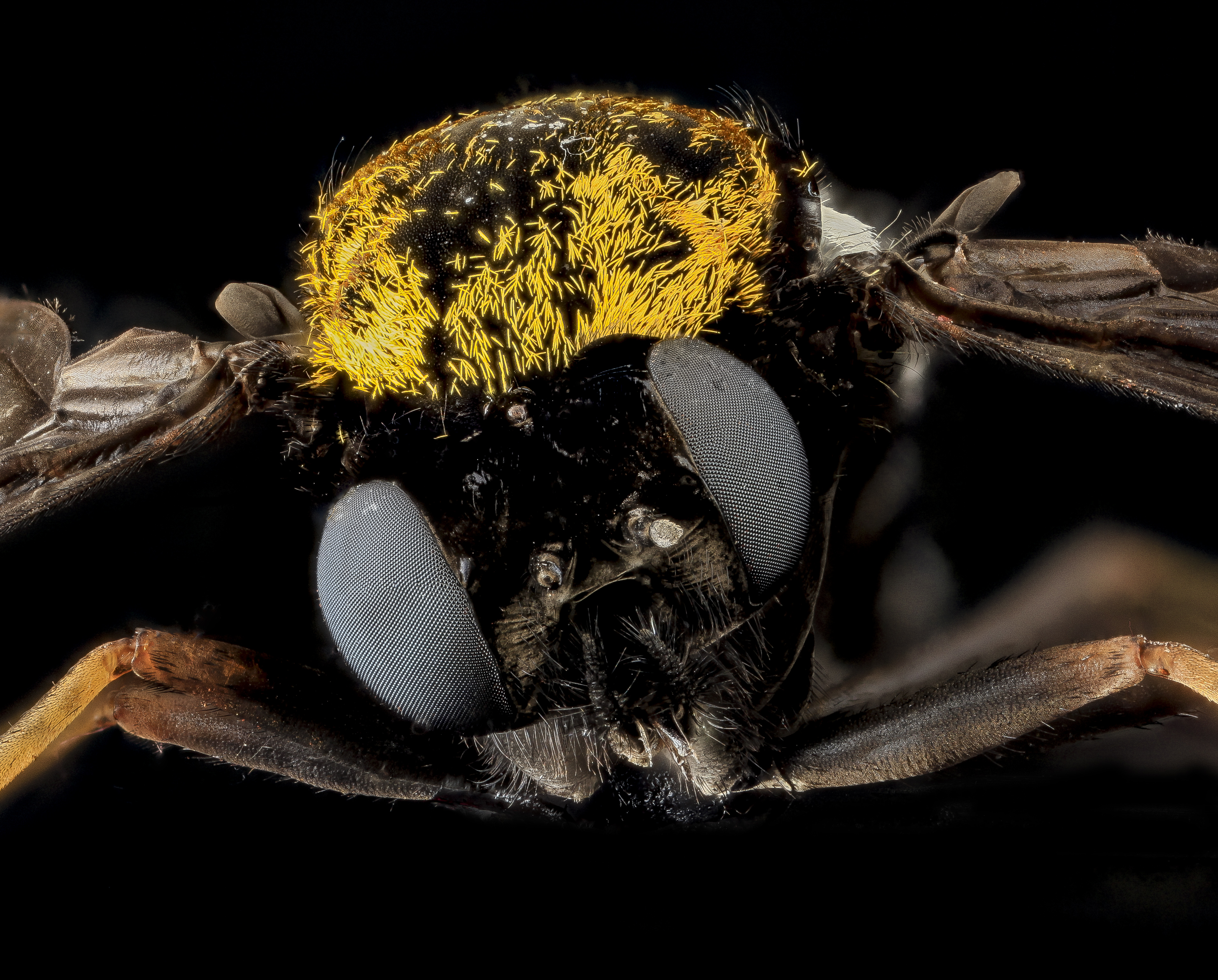 Golden-backed Snipe Fly, Collected by Francisco Posada, Laurel, Maryland